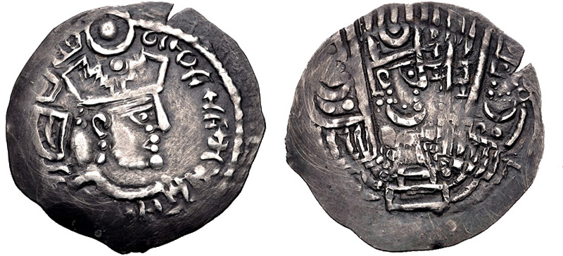 Coin of Khunak, a Bukhar Khudah (king of Bukhara). Early 8th Century. AR Drachm (30mm, 3.08 g, 9h). Bukharkhuda type. Samarqand mint. Crowned bust right / Fire altar with ribbon and crowned bust right in flames, flanked by two attendants. Naymark fig. 20; Zeimal fig. 1, 7. VF, toned.